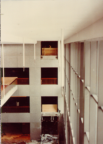 View of the side wall, during the first day of the investigation of the Hyatt Regency walkway collapse.